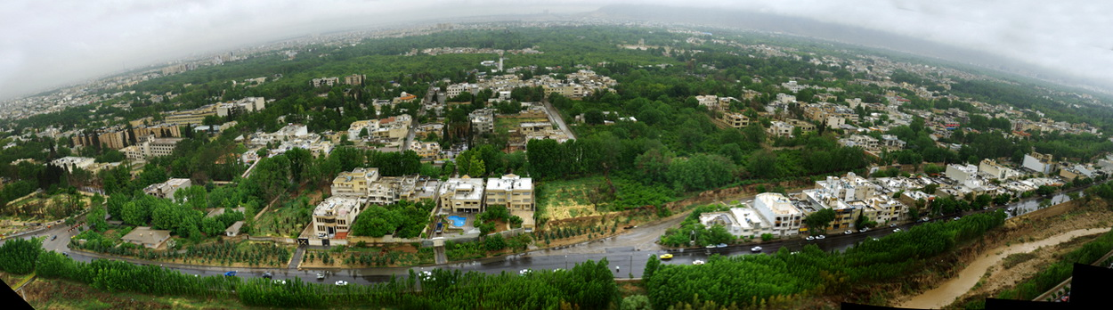 Panorama of Saheli Street in Shiraz By Amir Hussain Zolfaghary.